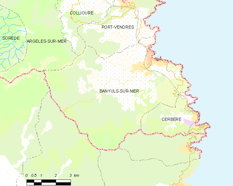 Map of French municipality